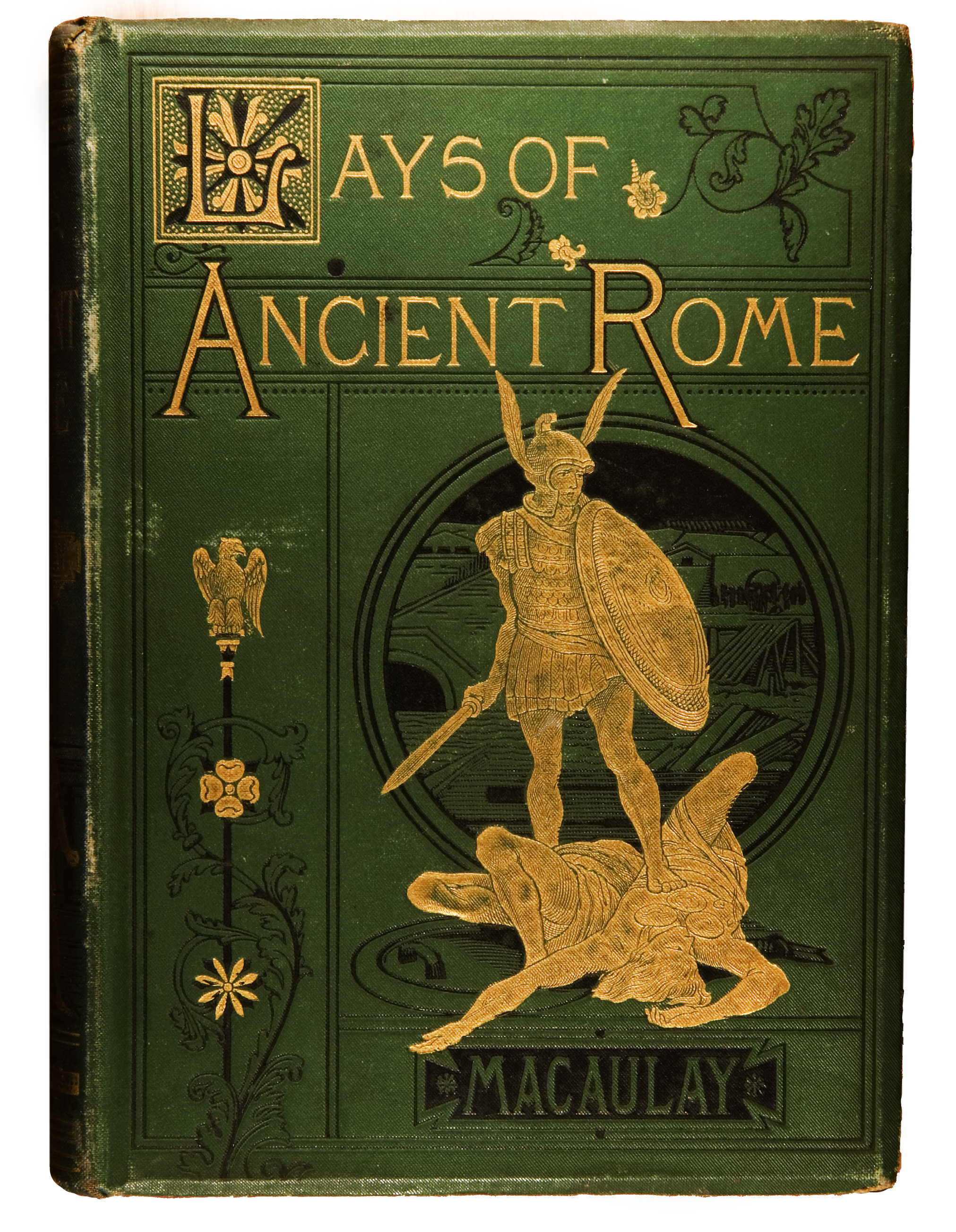 Lays of Ancient Rome, Lord Macaulay, Longmans, Green & Co, London 1881.